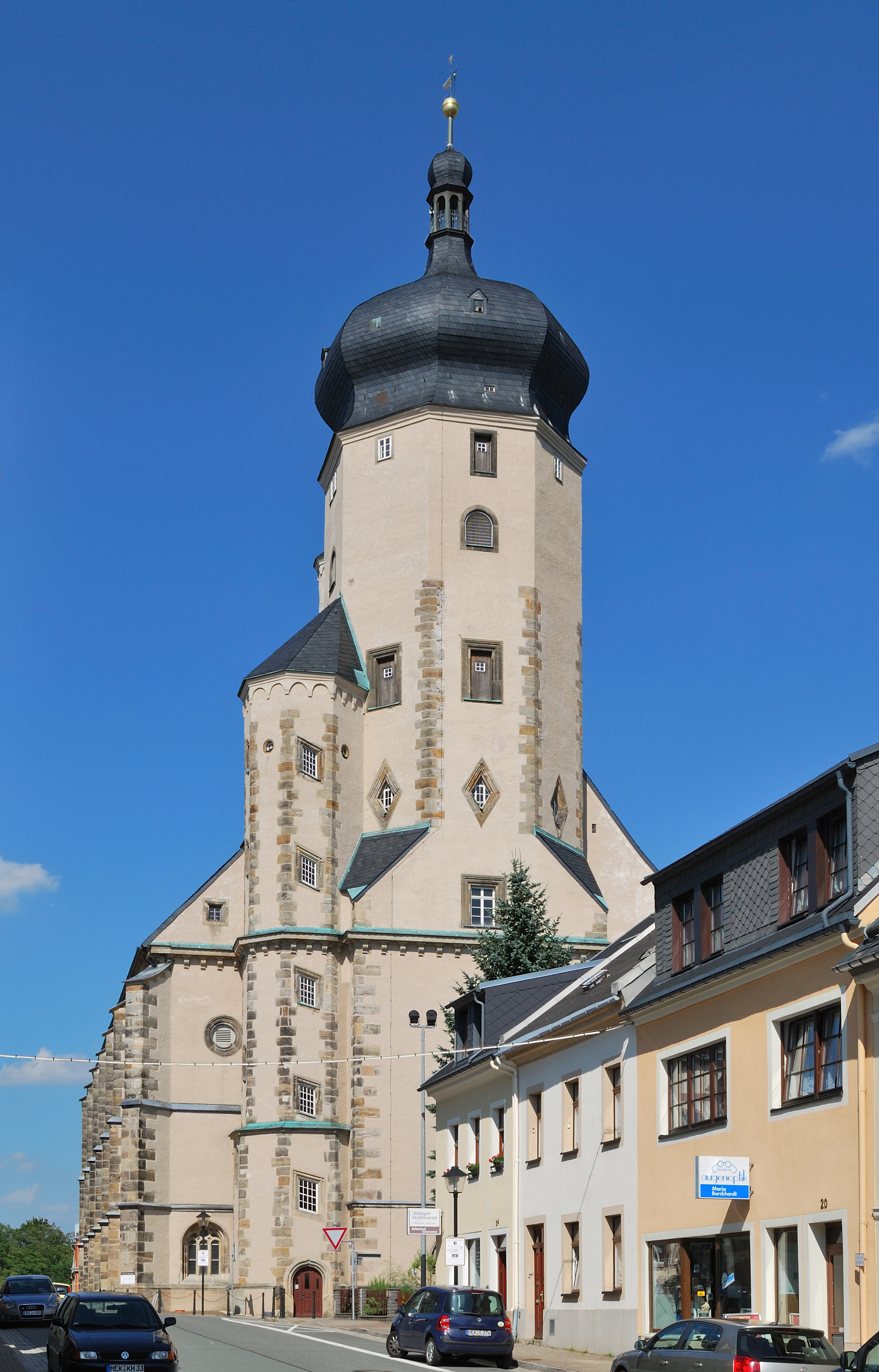 The protestant church St. Marien in Marienberg, Saxony in Germany.